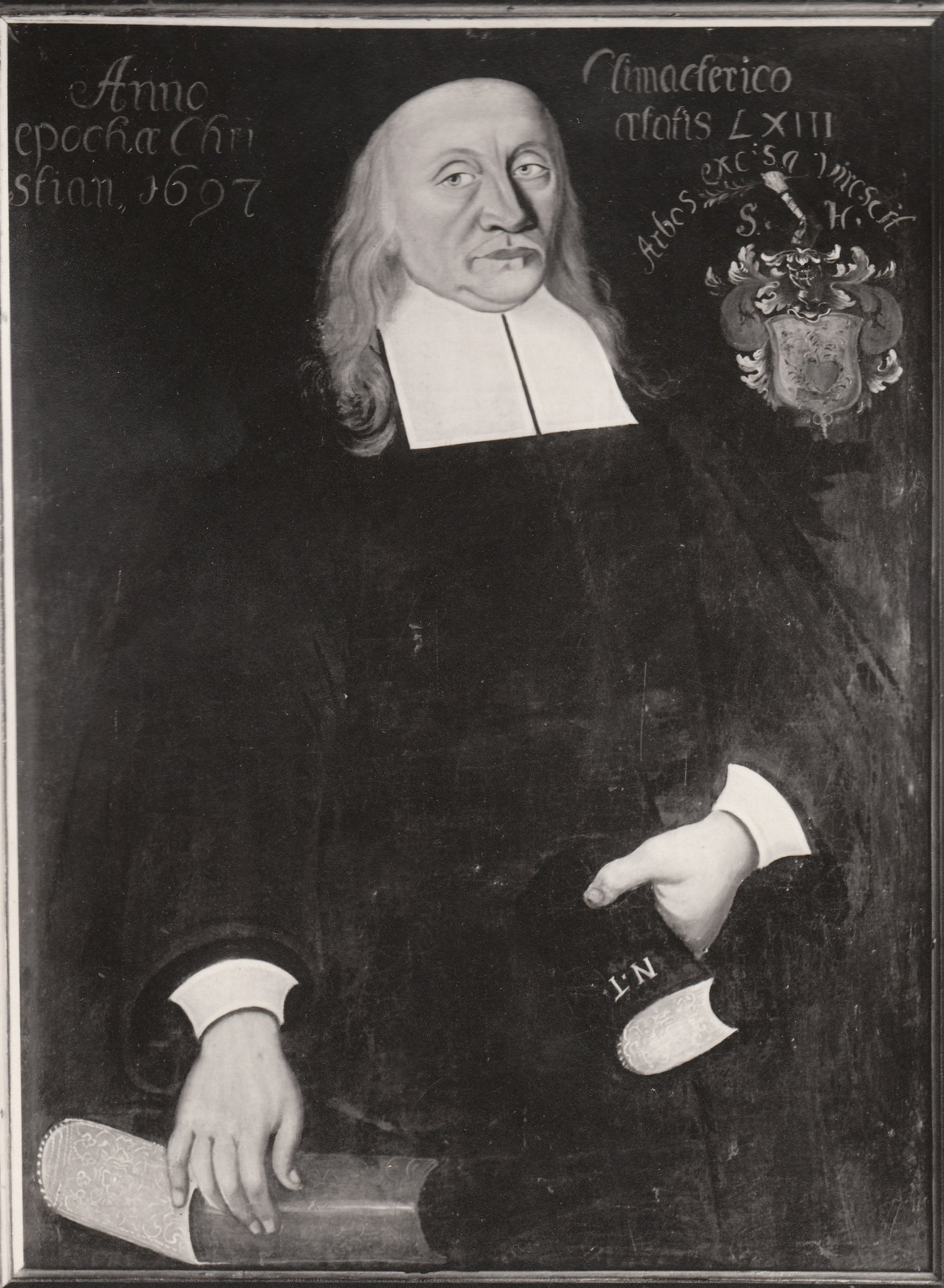 Norwegian theologian and schoolmaster Simon Hof (1634–1708)